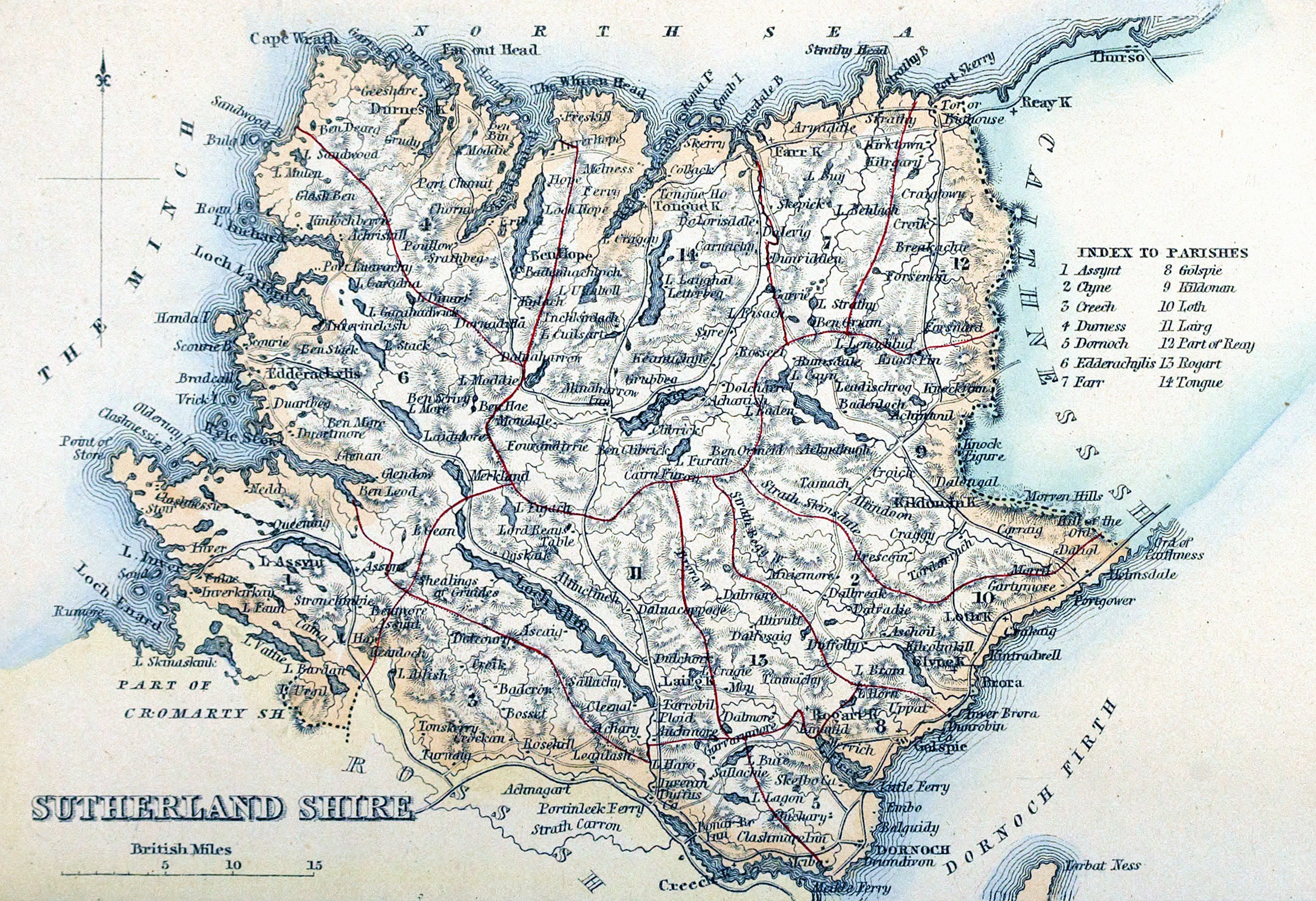 1861 SUTHERLANDSHIRE. The Imperial Gazetteer of Scotland. VOL.II. Edited by Rev. John Marius Wilson